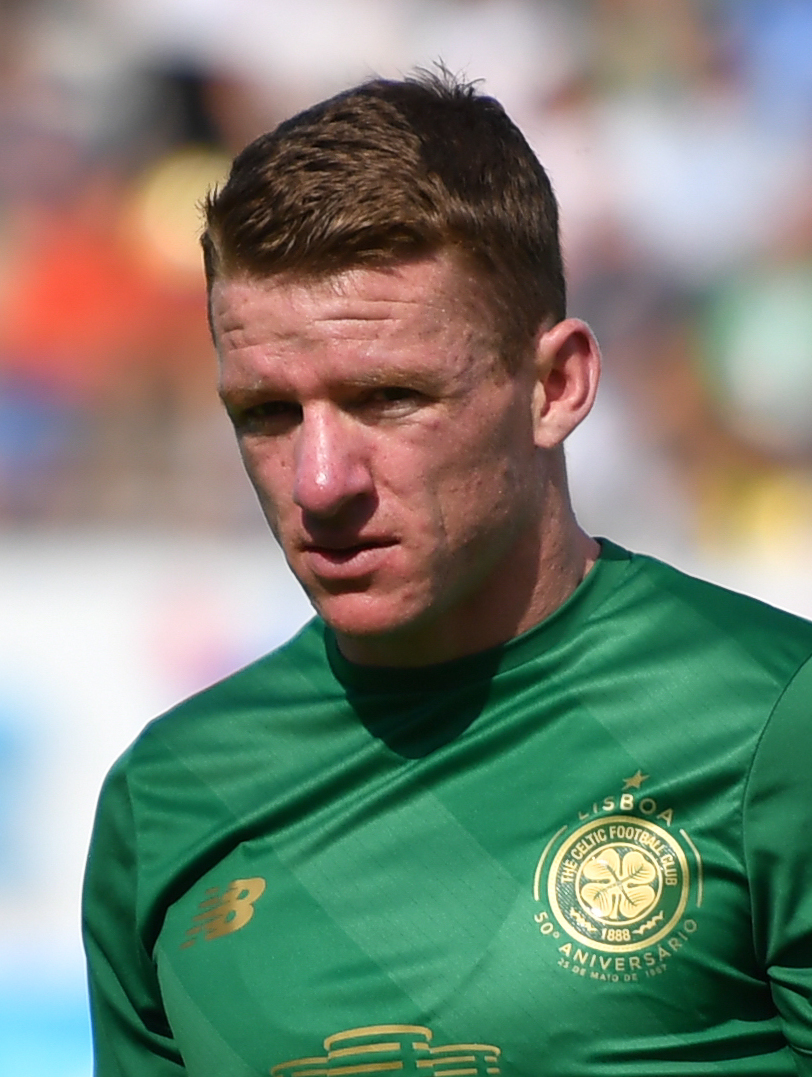 1/7/2017, Amstetten, Austria, sports, soccer, Tipico Fussball Bundesliga - preparation match SK Rapid Wien vs Celtic Glasgow. Image shows Jonny Hayes (Celtic FC).